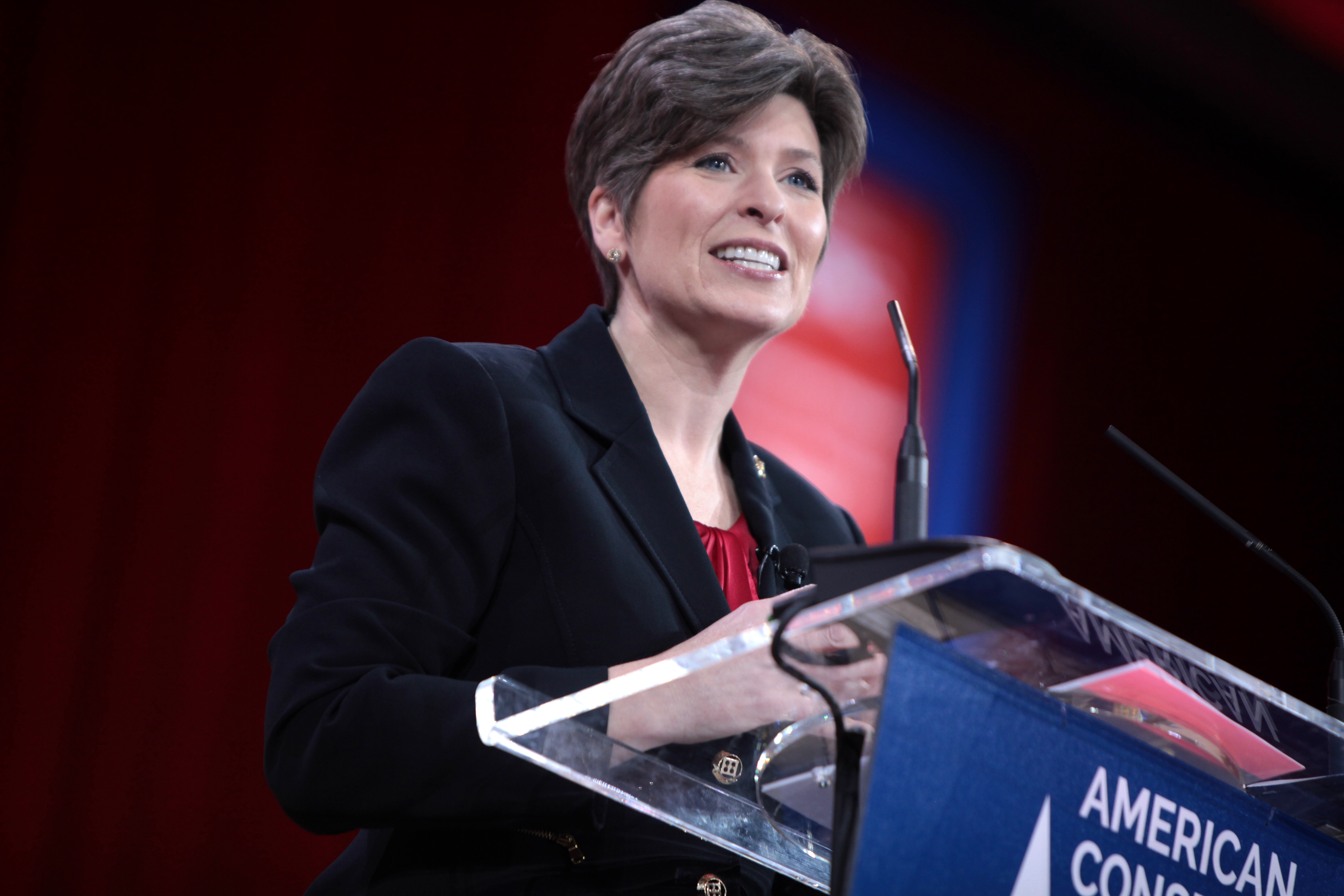 Joni Ernst speaking at CPAC 2015 in Washington, DC.